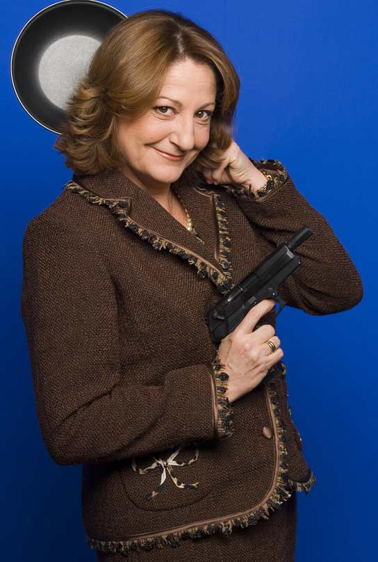 Spanish actress Rosario Pardo